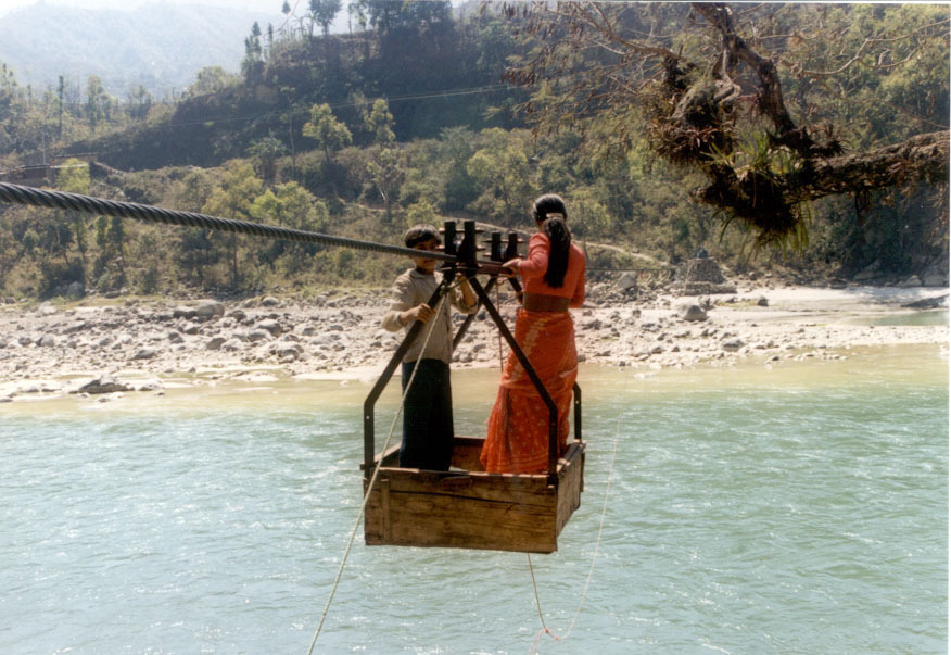 Crossing a river in Nepal using a "tuin", a hand-powered cable-car.